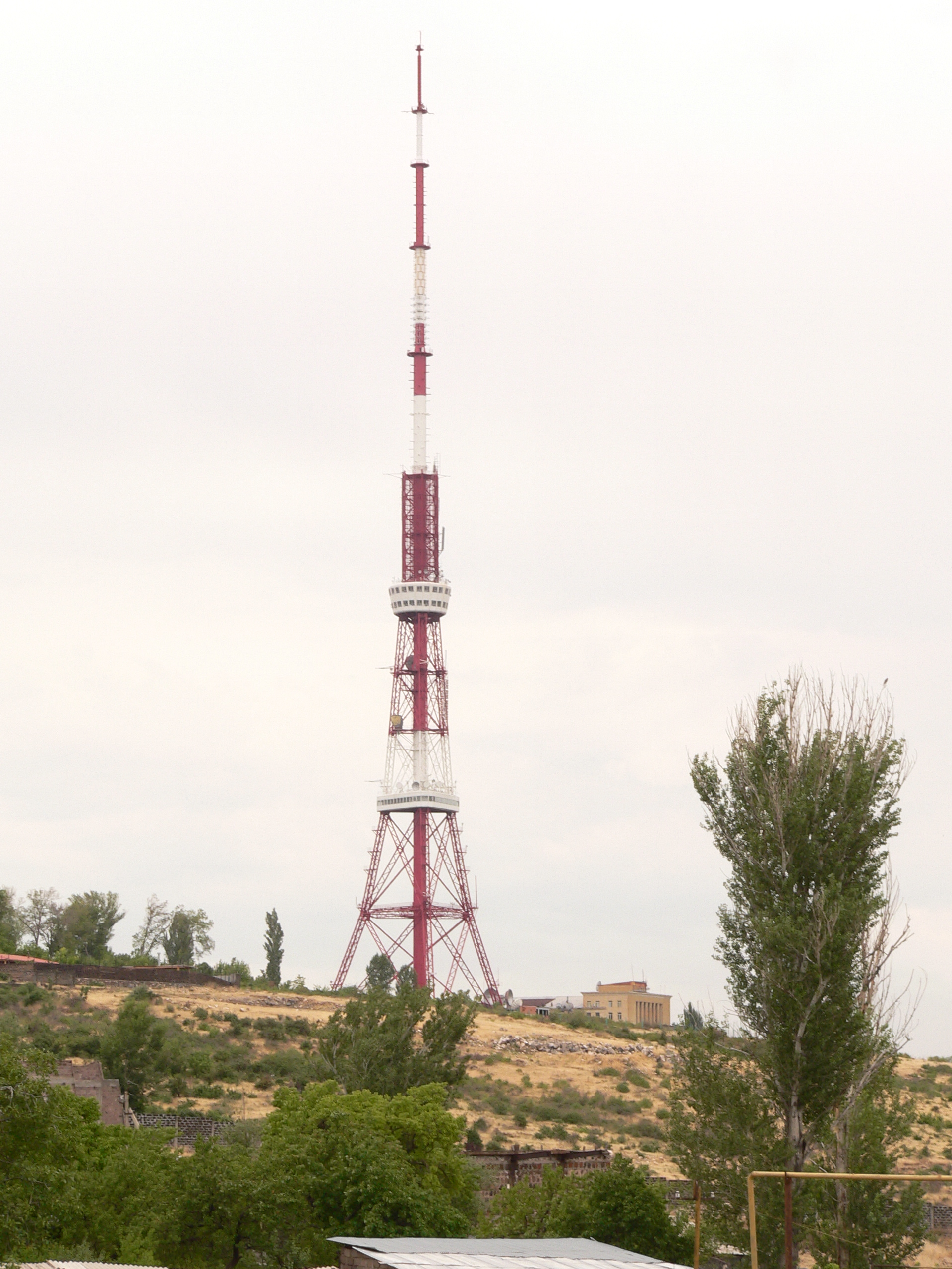 Yerevan TV Tower